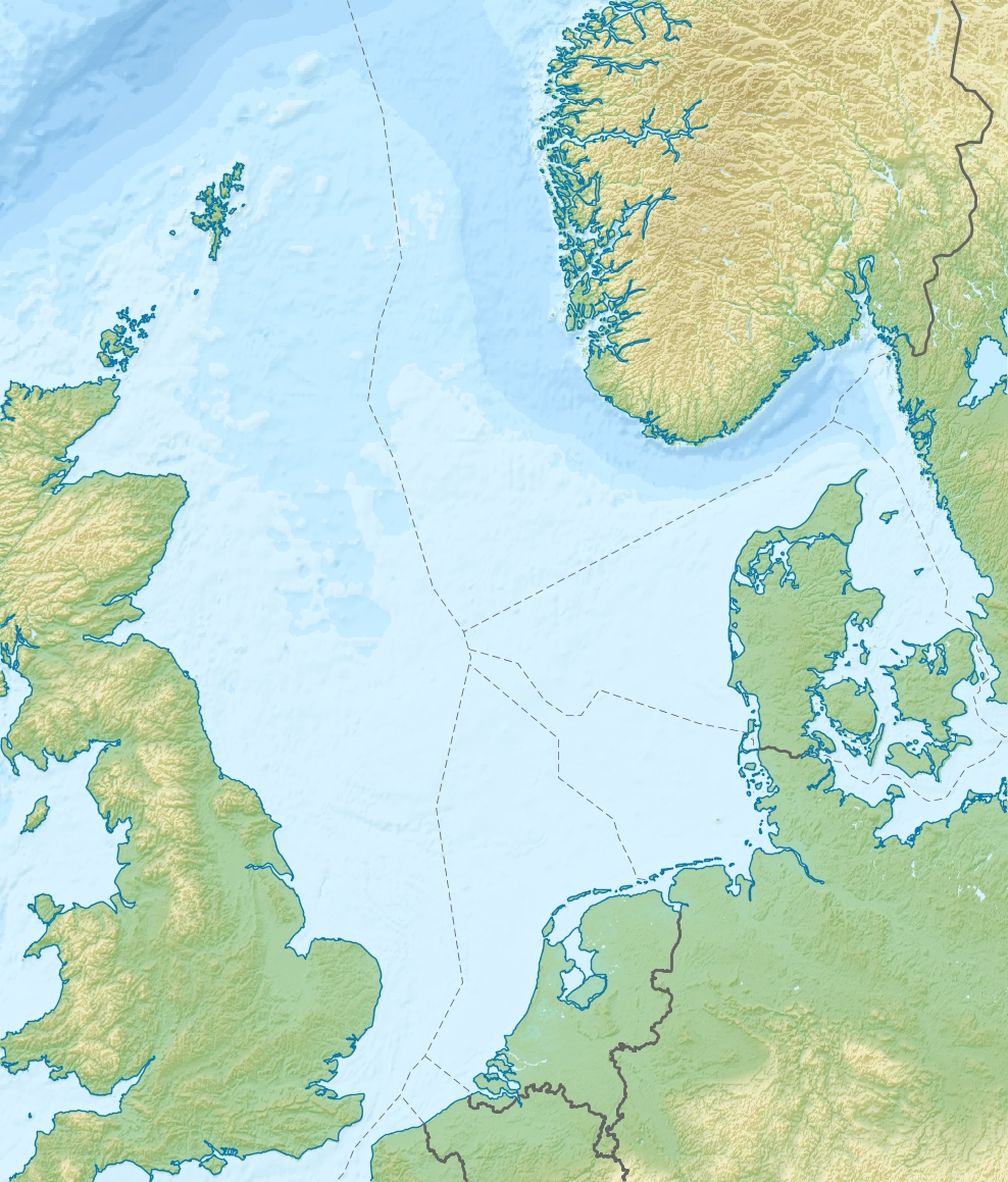 Location map of the North Sea Equirectangular projection, N/S stretching 180 %. Geographic limits of the map: * N: 62.5° N * S: 50.5° N * W: 5.2° W * E: 13.2° E